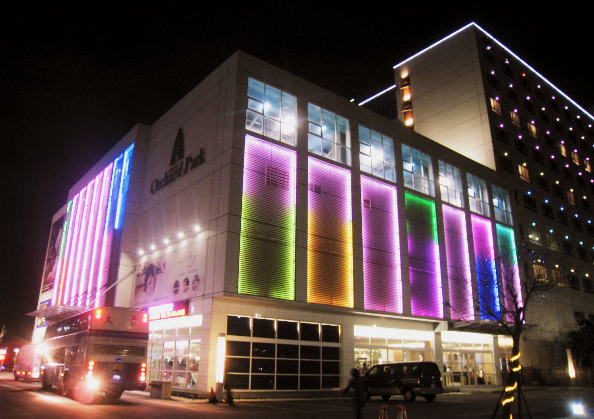 Orchard Park Hotel (Daguan Rd., Dayuan Township, Taoyuan County, Taiwan) at night, 16 February 2013